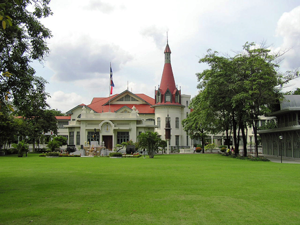 Phaya Thai Palace, Bangkok Thailand